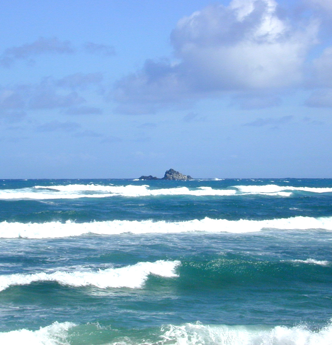 Mōkōlea Rock in Kailua Bay, O‘ahu, Hawai‘i, 2.2 km off North Beach, MCBH; photograph provided to Wikipedia by the photographer, Eric Guinther and released under the GNU Free Documentation License.